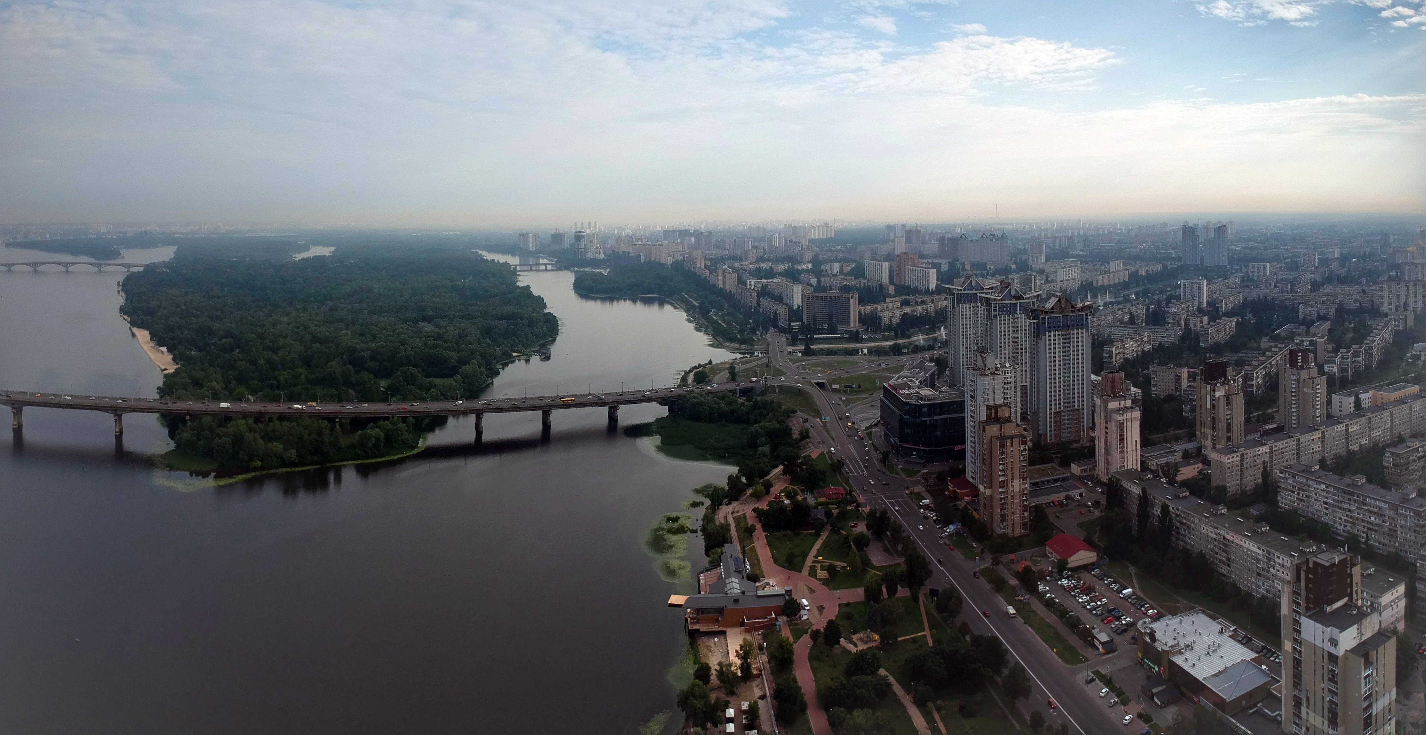 Aerial view of Berezniaky and Dripro river, Kyiv, Ukraine